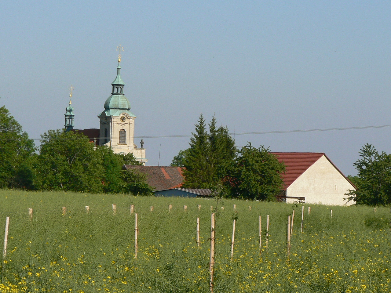 St Wenceslas church in village of Vysoká, Mělník District, Czech Republic